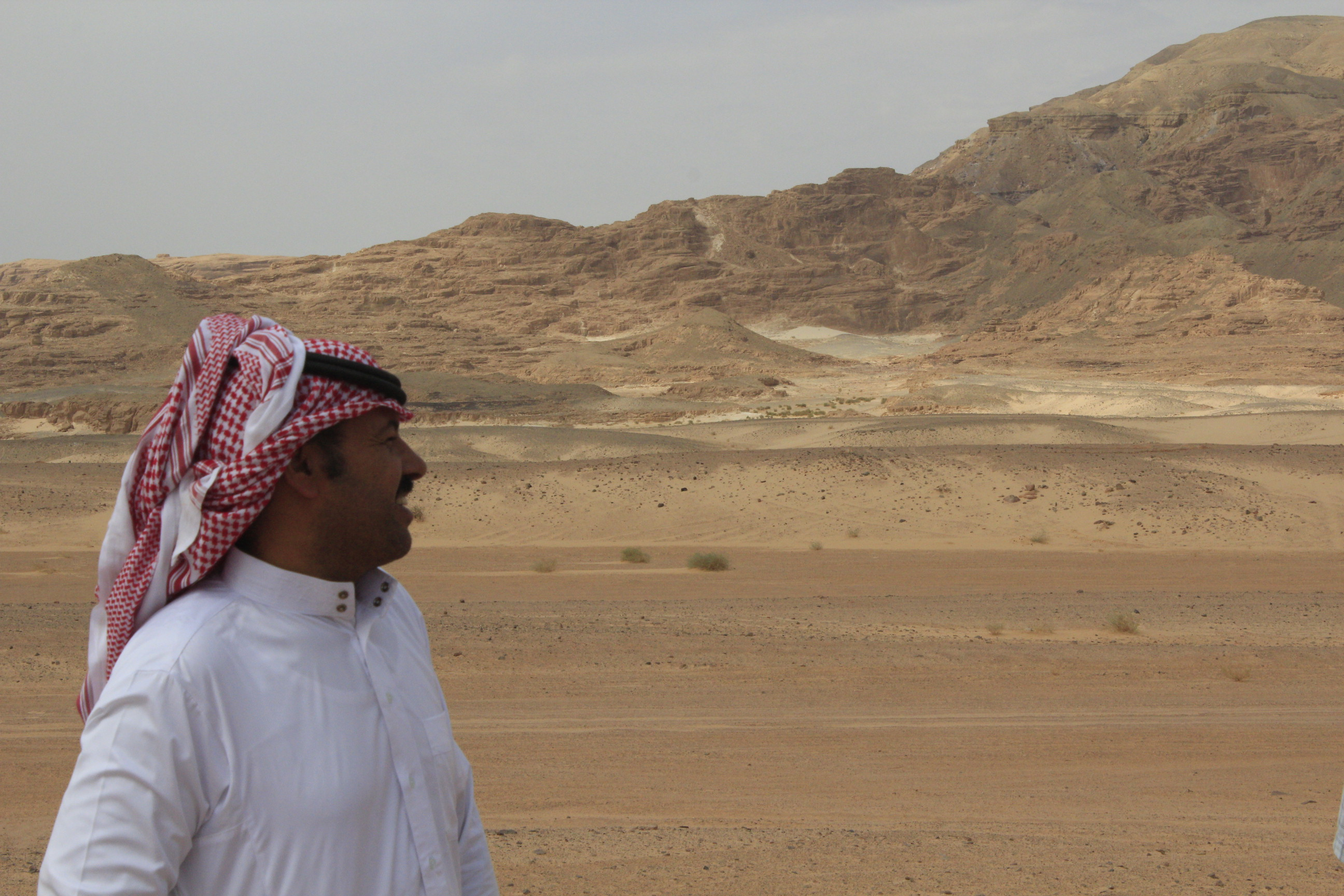 Arabs of Nuweiba, Egypt